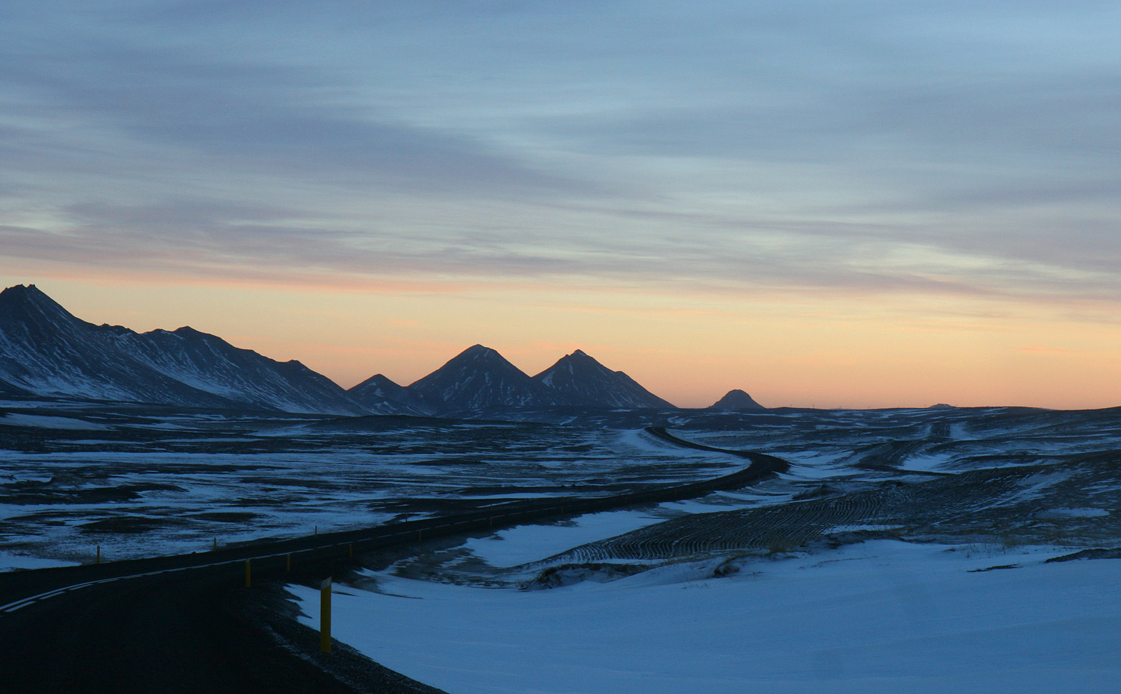 Route 1 heading south along Viðidallsfjöll, November 22 16:55 Iceland, November 2007 Photo by me user:debivort (or friend, with permission given to freely license photo).